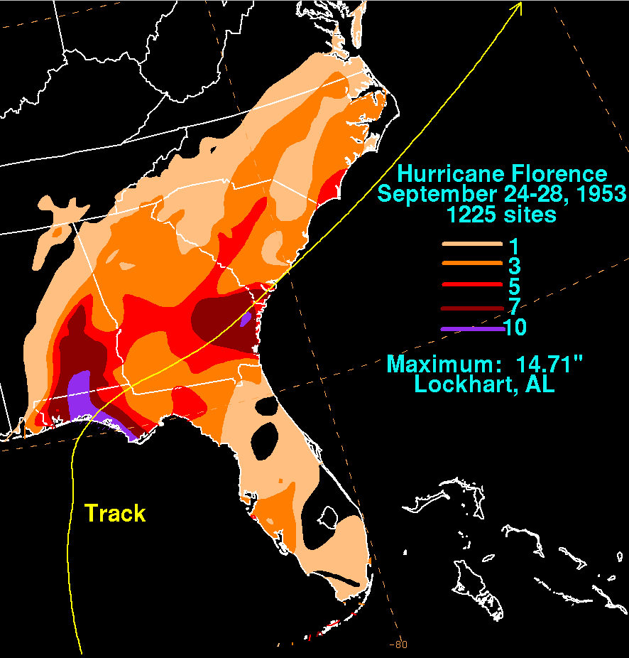 Rainfall produced by Hurricane Florence during September 1953.